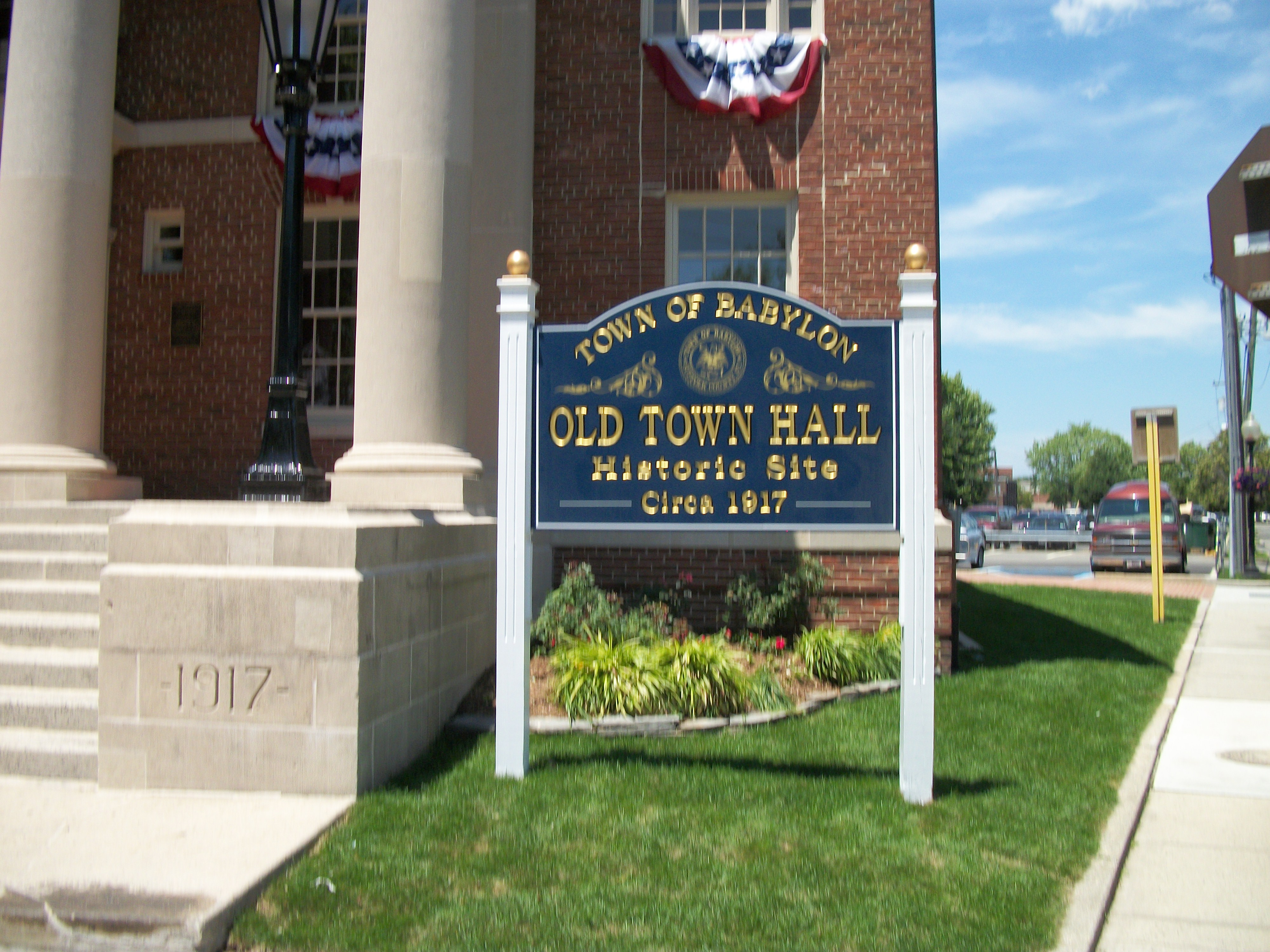 Town of Babylon sign on the southeast corner of the former Babylon Town Hall in the Village of Babylon, New York.